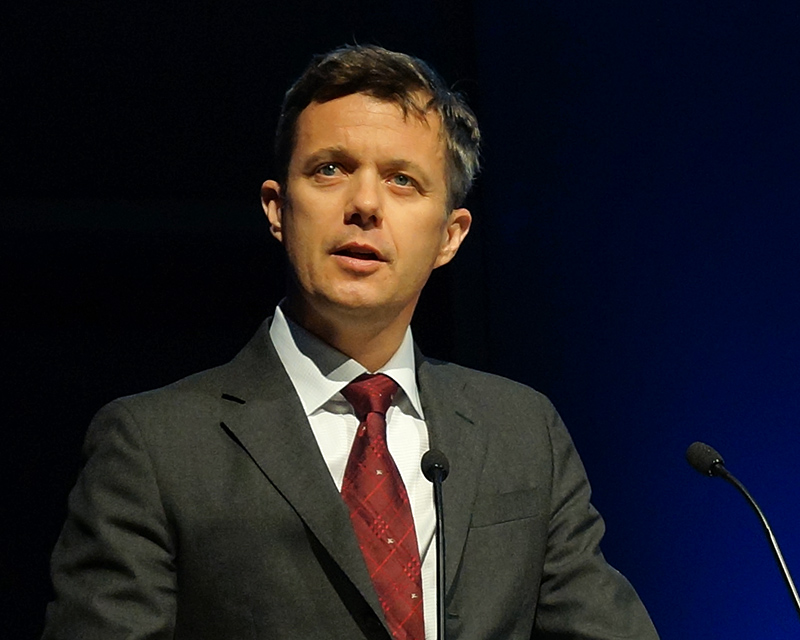 Frederik, Crown Prince of Denmark, Count of Monpezat, RE, SKmd (Frederik André Henrik Christian), the heir apparent to the throne of Denmark - from the European Wind Energy Association offshore event "EWEA Offshore 2015" in Copenhagen, Denmark, March 2015